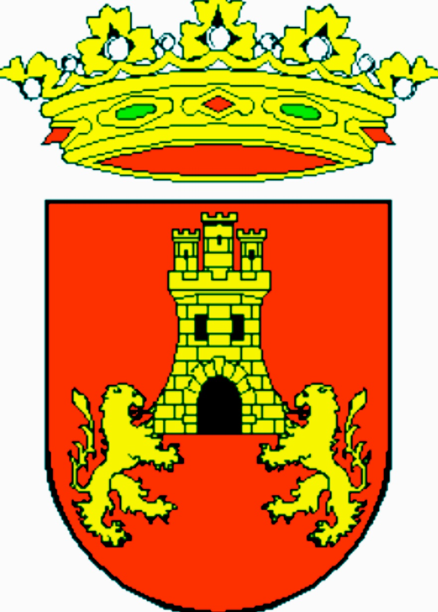 Zuia's shield